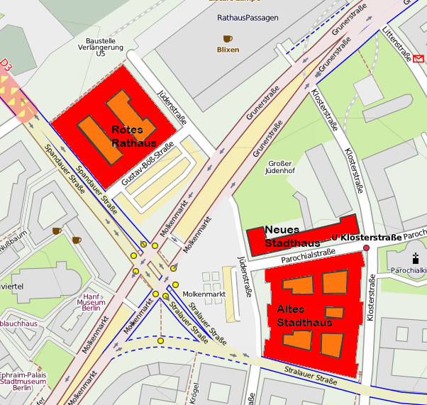 Comparison of the three administration buildings in Berlin by location. Map was created from [1], a CC-BY-SA map, which clearly shows all three of the Stadthauses.